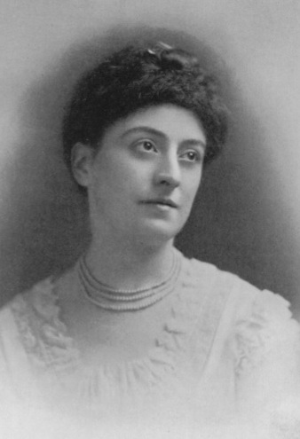 A photograph of Ethel Gordon Fenwick, the first president of International Council of Nurses